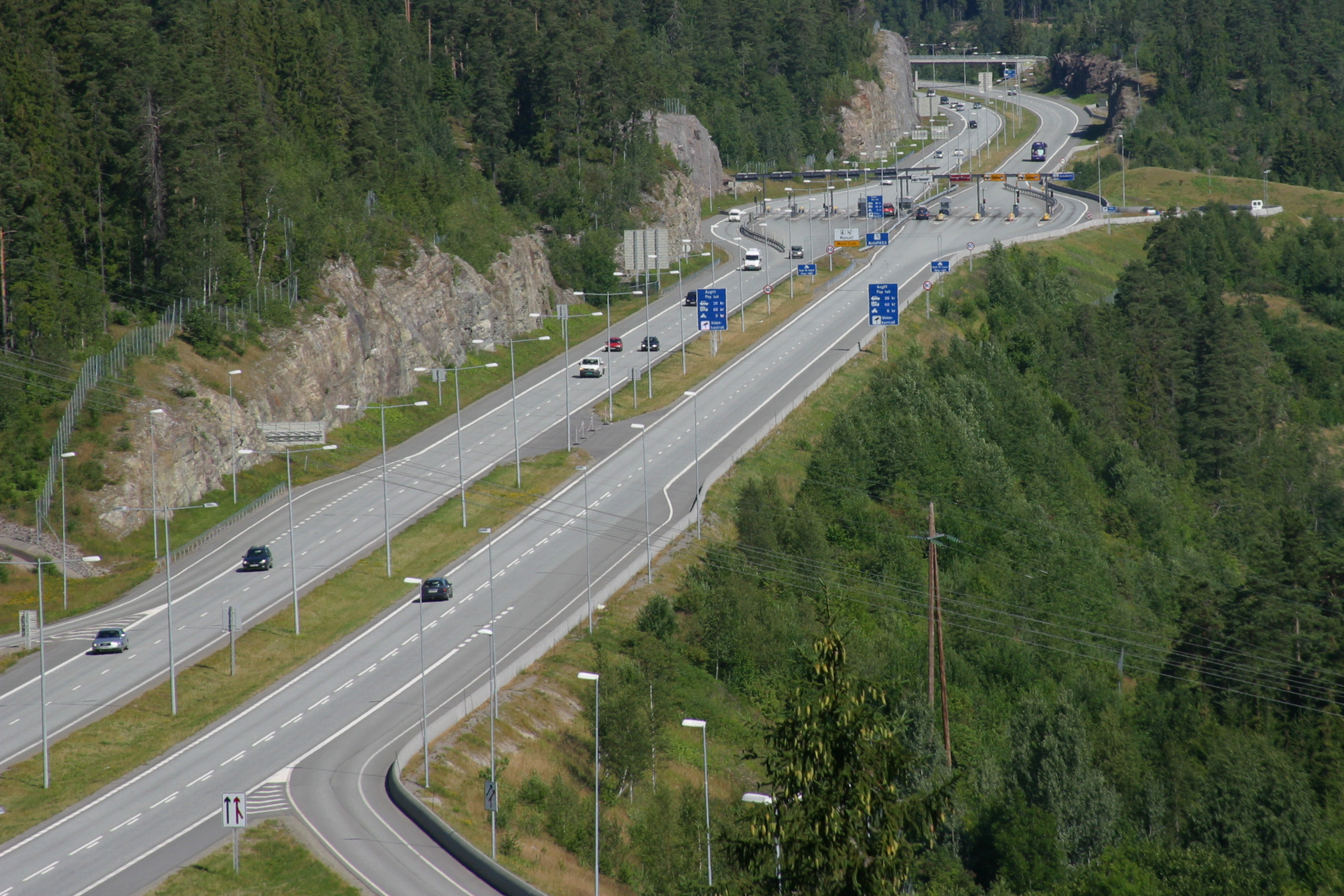 Picture of Tollroad station on E-18 in Vestfold (Norway). This tollroad were later removed. The road was paid off.